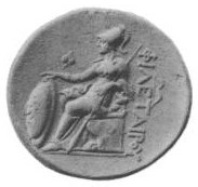 Cropped photograph of the reverse side of a silver tetradrachm minted in the Pergamene Kingdom by Attalus I, showing the goddess Athena seated on a throne.